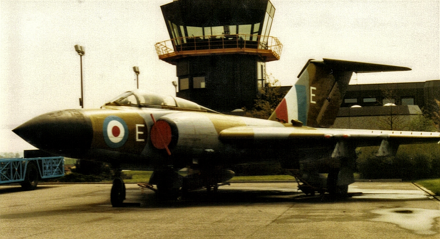 Gloster Javelin at the Airport Mönchengladbach